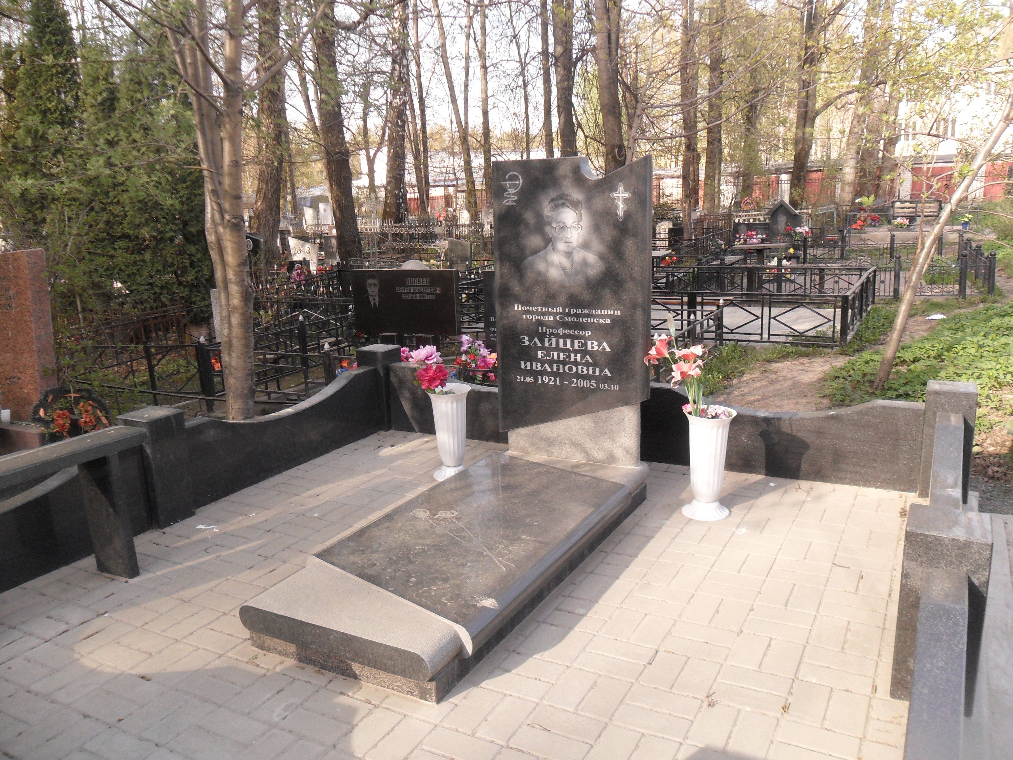 Tomb of honorary citizen of Smolensk Professor Elena Zaitseva at the Fraternal Cemetery in Smolensk.